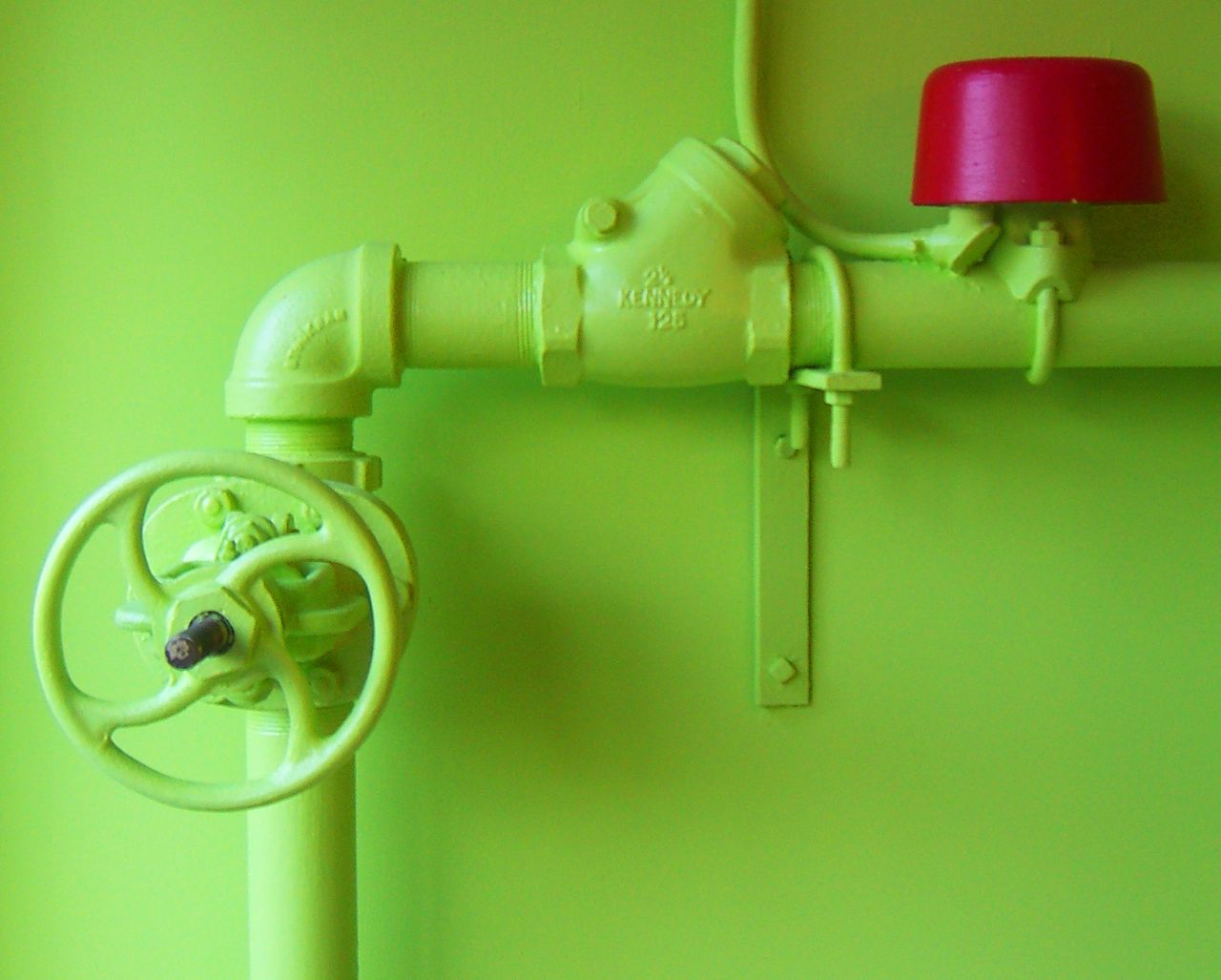 A plumbing installation painted green.